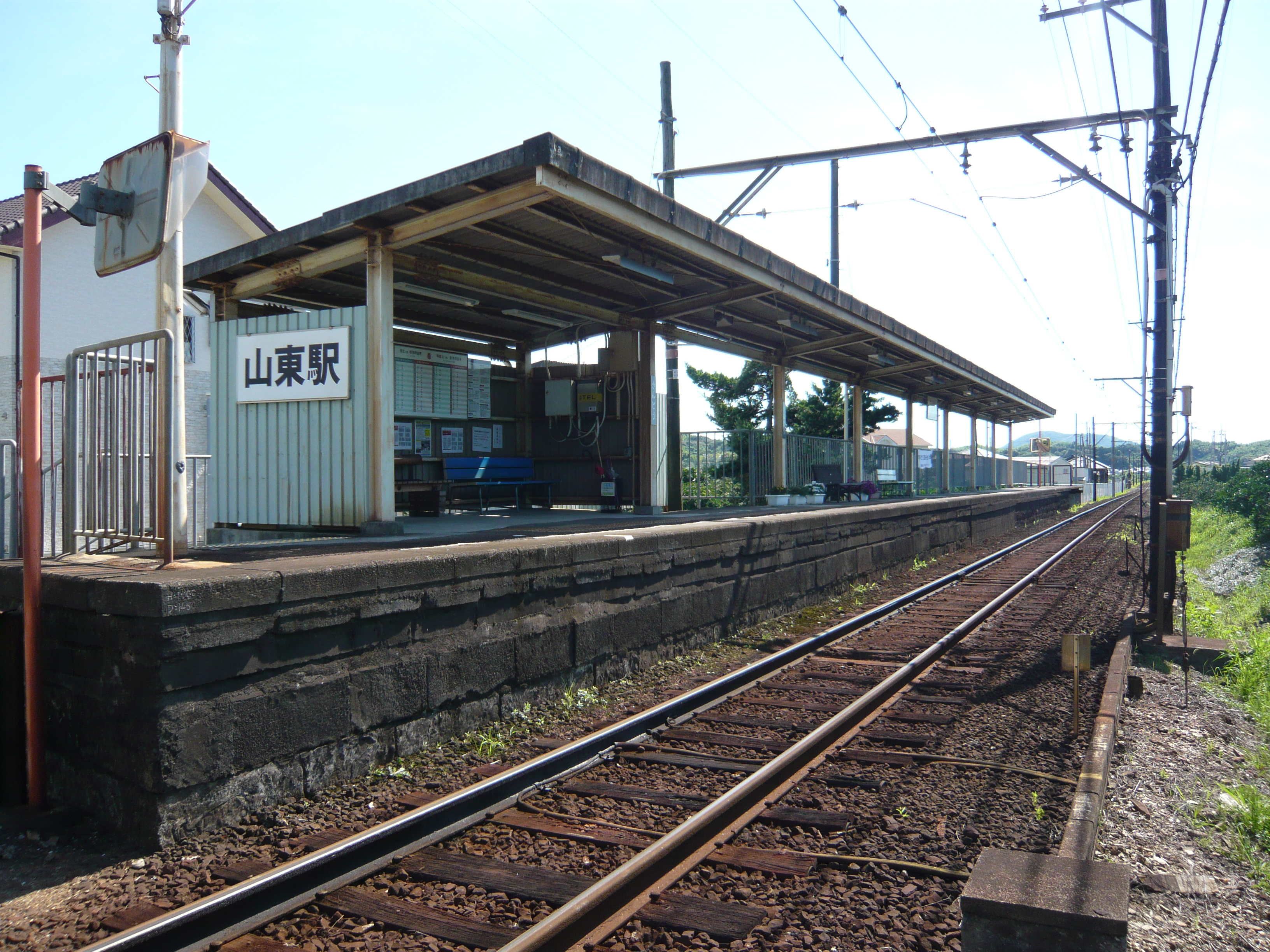 和歌山電鐵貴志川線 山東駅 Sandō station, Kishigawa line 2011.7.15